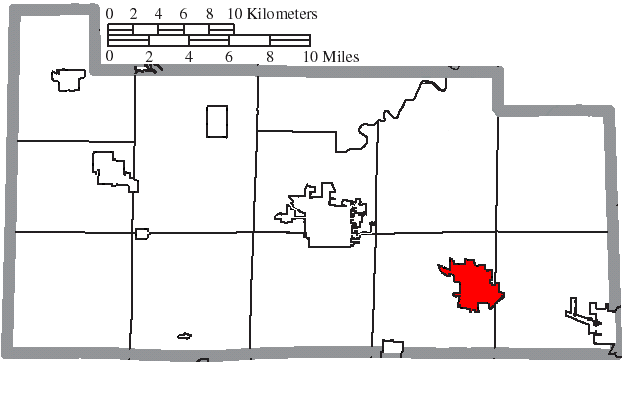 Map of the municipal and township boundaries of Sandusky County, Ohio, United States, as of the 2000 census, with the location of the city of Clyde highlighted. Township borders are shown only in unincorporated areas in order to differentiate incorporated and unincorporated areas more clearly.